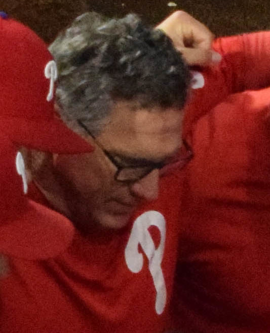 Members of the Philadelphia Phillies bullpen at Citizens Bank Park in Philadelphia in 2018